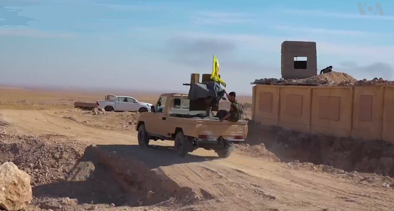 SDF technical in a liberated village in the northern Raqqa countryside.